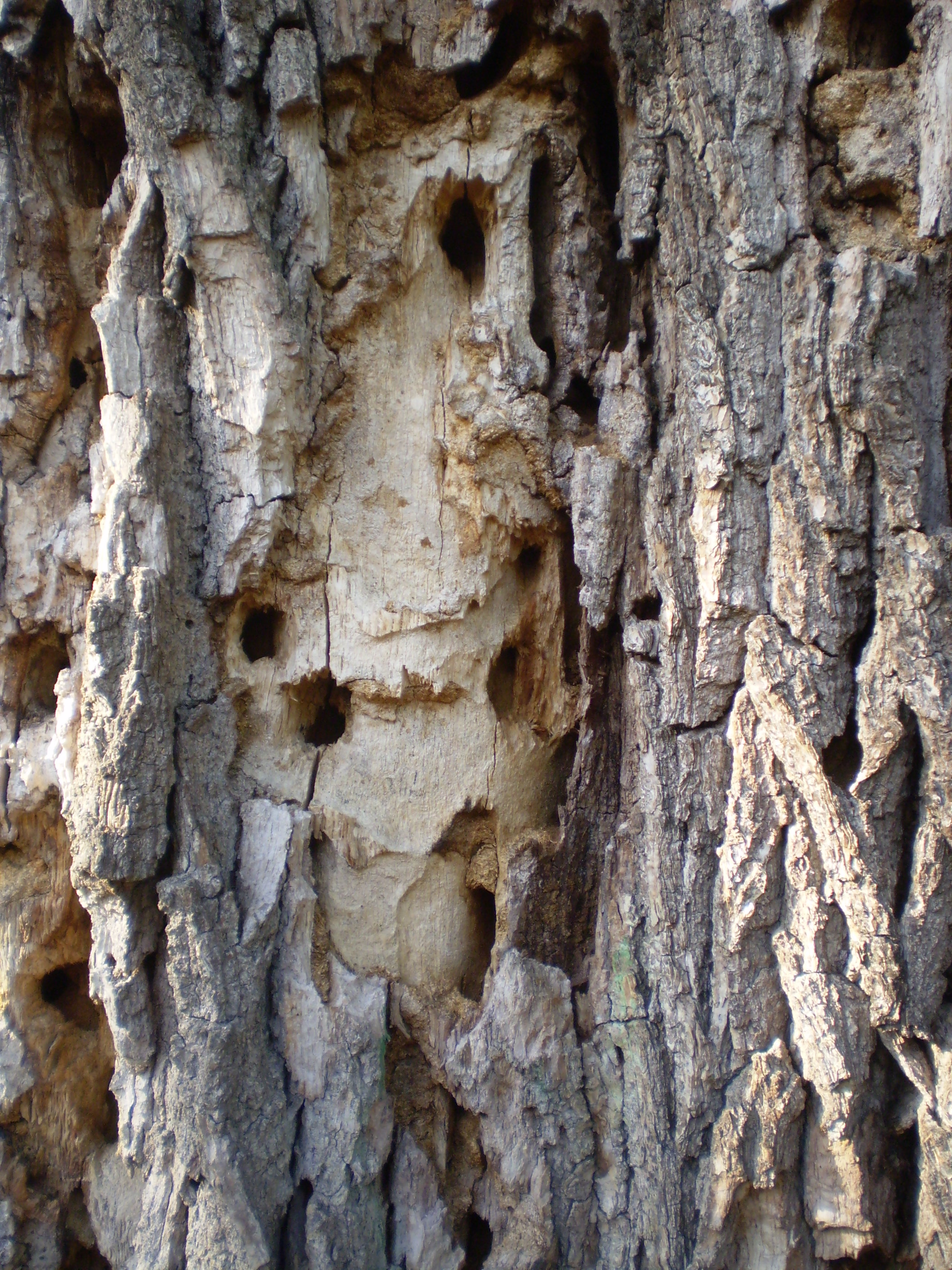 Small holes from Cerambyx cerdo in the tree in Lednice.